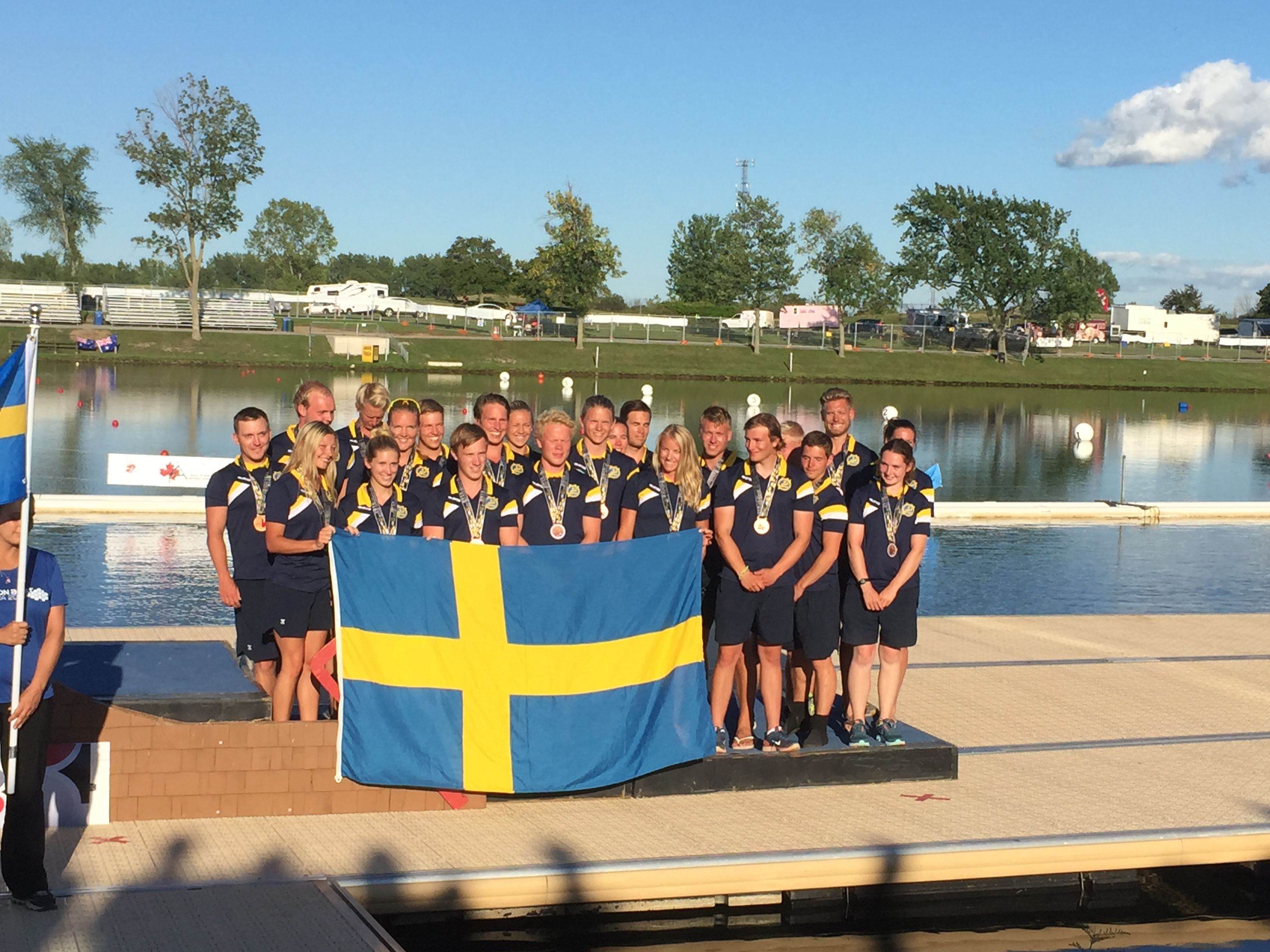 (The Swedish U24 National Team receiving their bronze medals at the 12th IDBF World Championships in Welland, Canada on August 22nd 2015.)